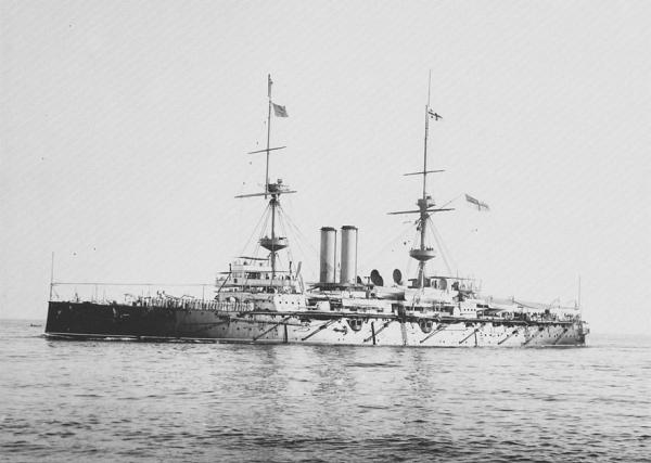 Image of HMS Ramillies (1892), one of the Royal Sovereign class battleships.